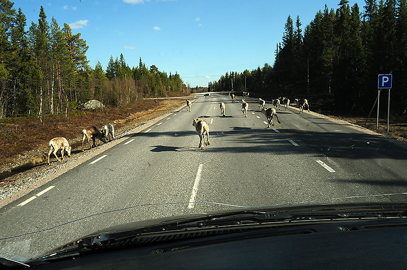 The silver road in Arjeplog, Lappland, Sweden.